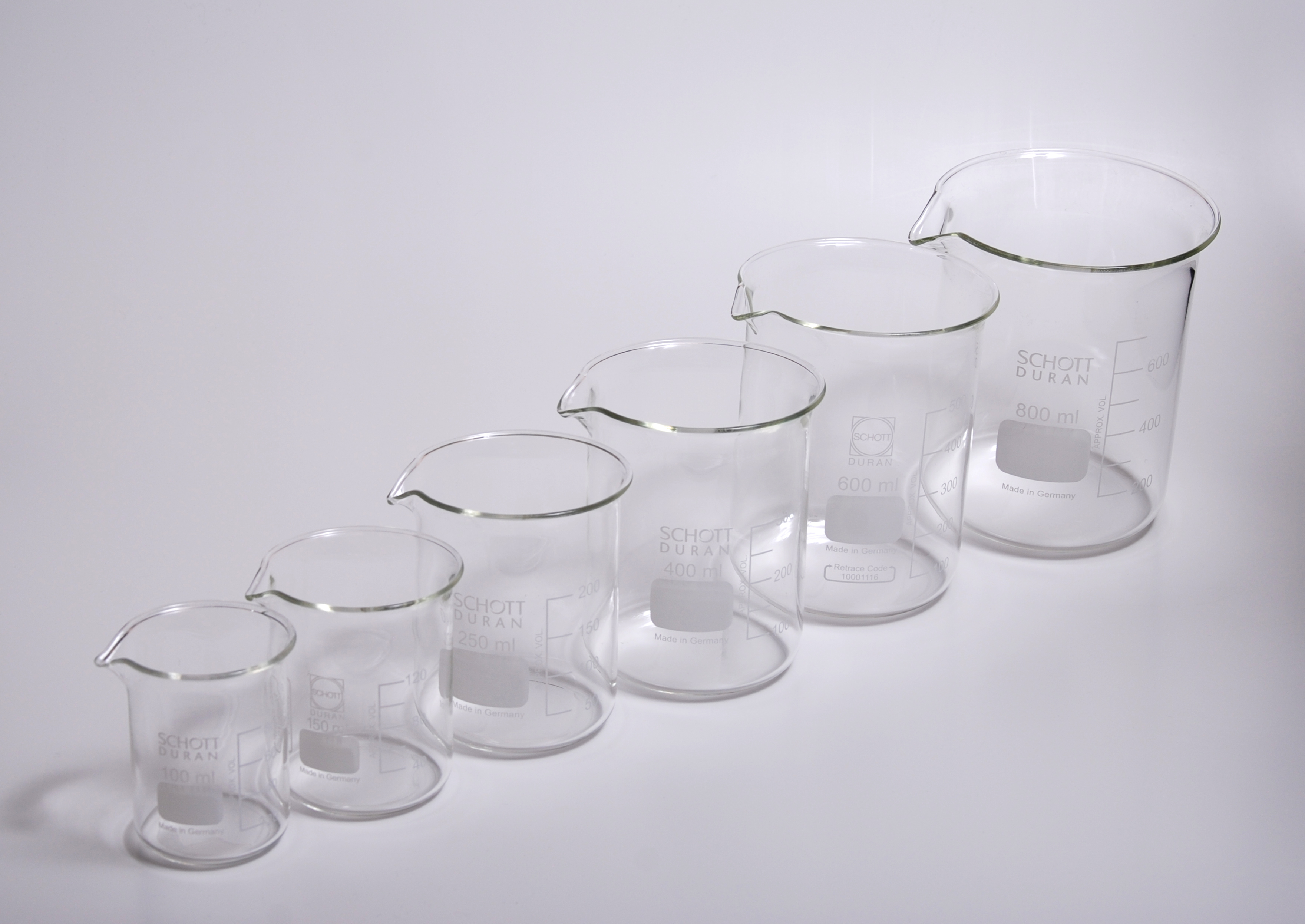 Set of glass beakers from 100 to 800 ml